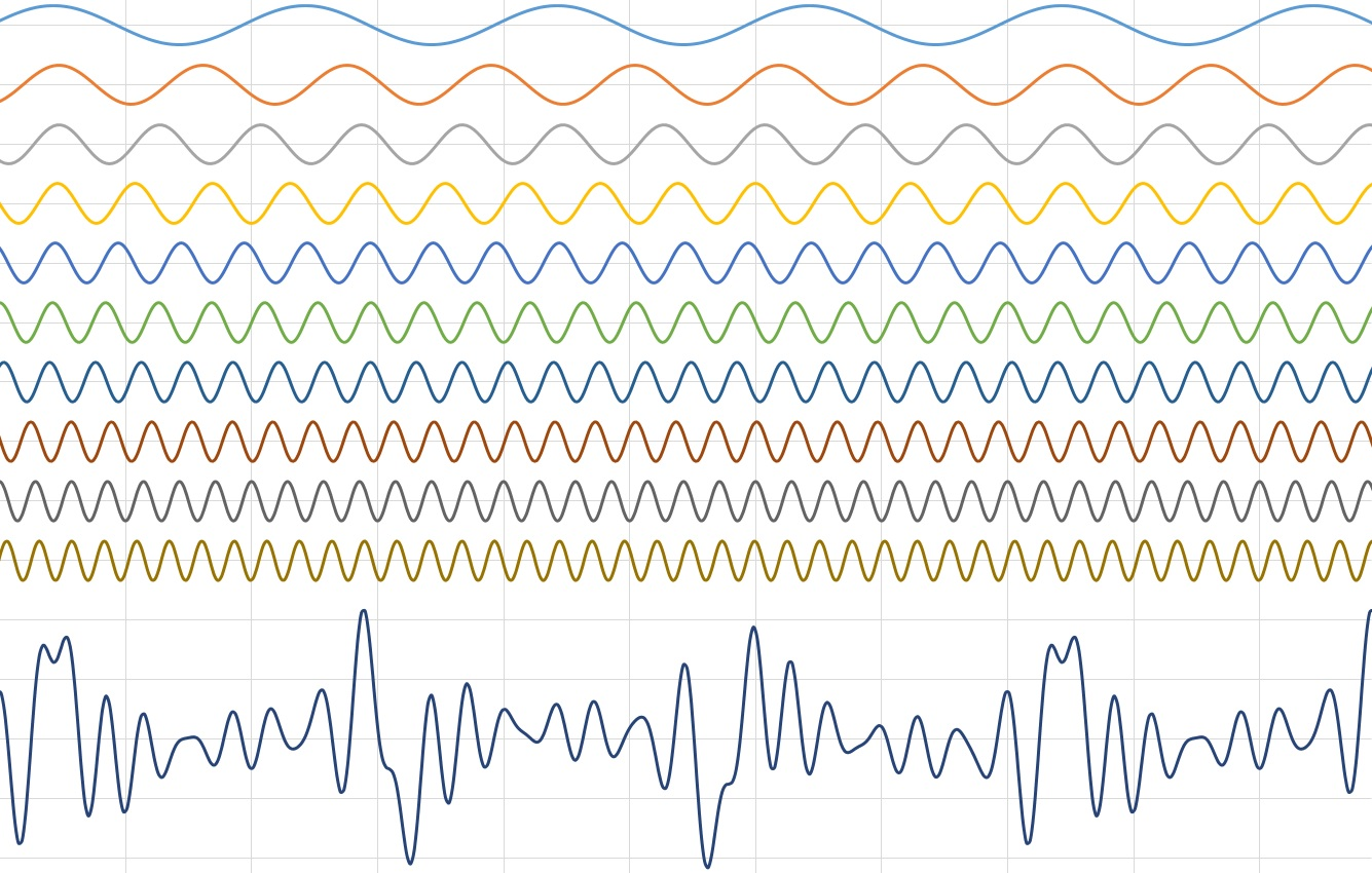 Complex wave with its ten components